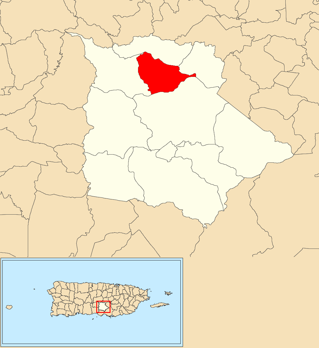 Coamo Arriba, Coamo, Puerto Rico, locator map